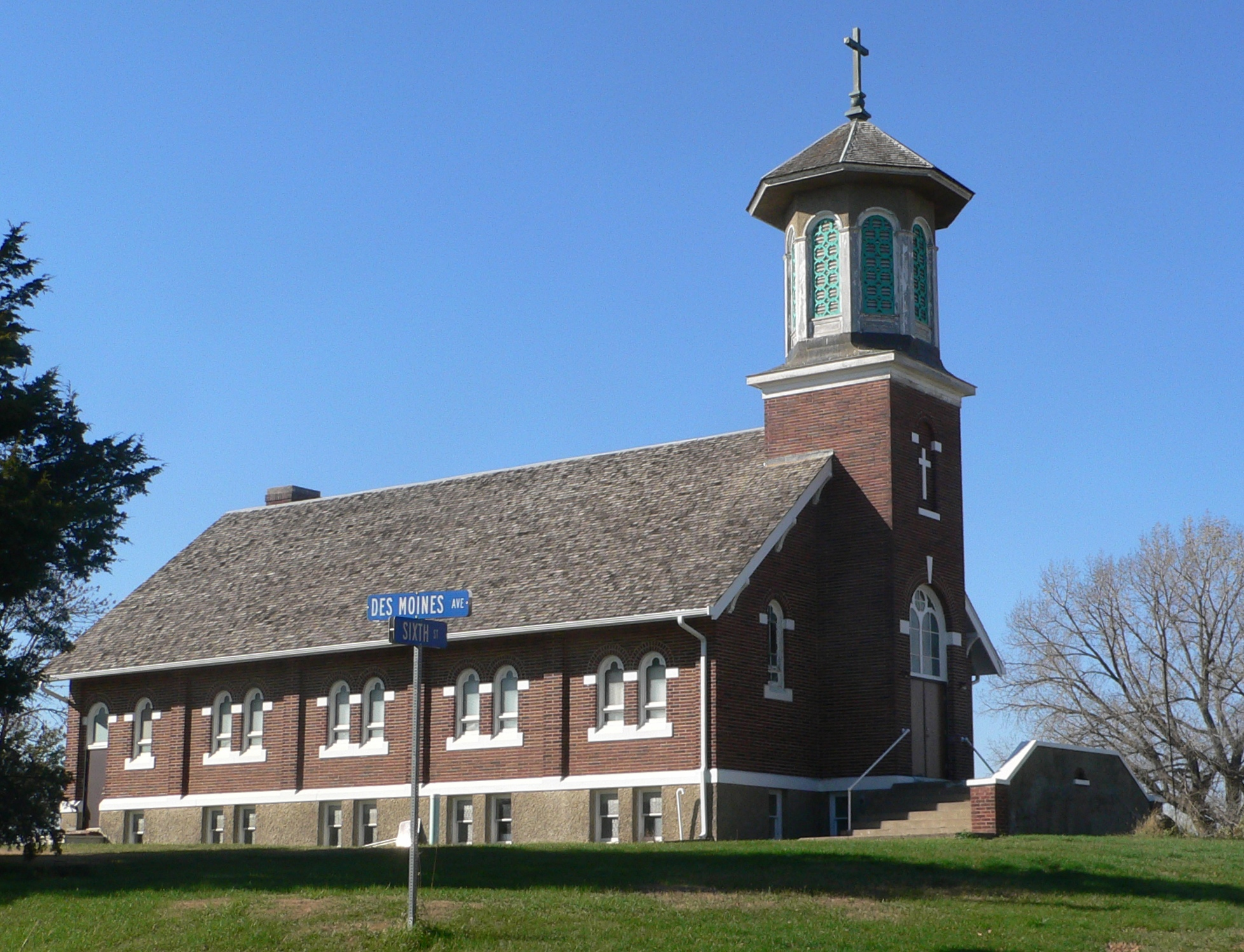 St. Augustine Church, now occupied by Gregory County Historical Society, at southeast corner of 6th and Main Streets in Dallas, South Dakota; seen from the northeast.